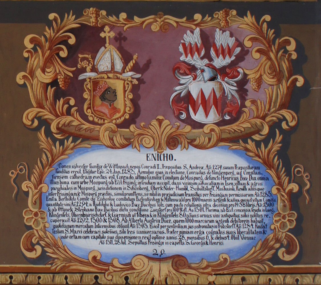 Wappentafel von Wildgraf Emicho, Fürstbischof von Freising, im Fürstengang zwischen Fürstbischöflicher Residenz und Freisinger Dom. Links das geistliche, rechts das persönliche Wappen, darunter ein lateinischer Text mit kurzer Biographie.